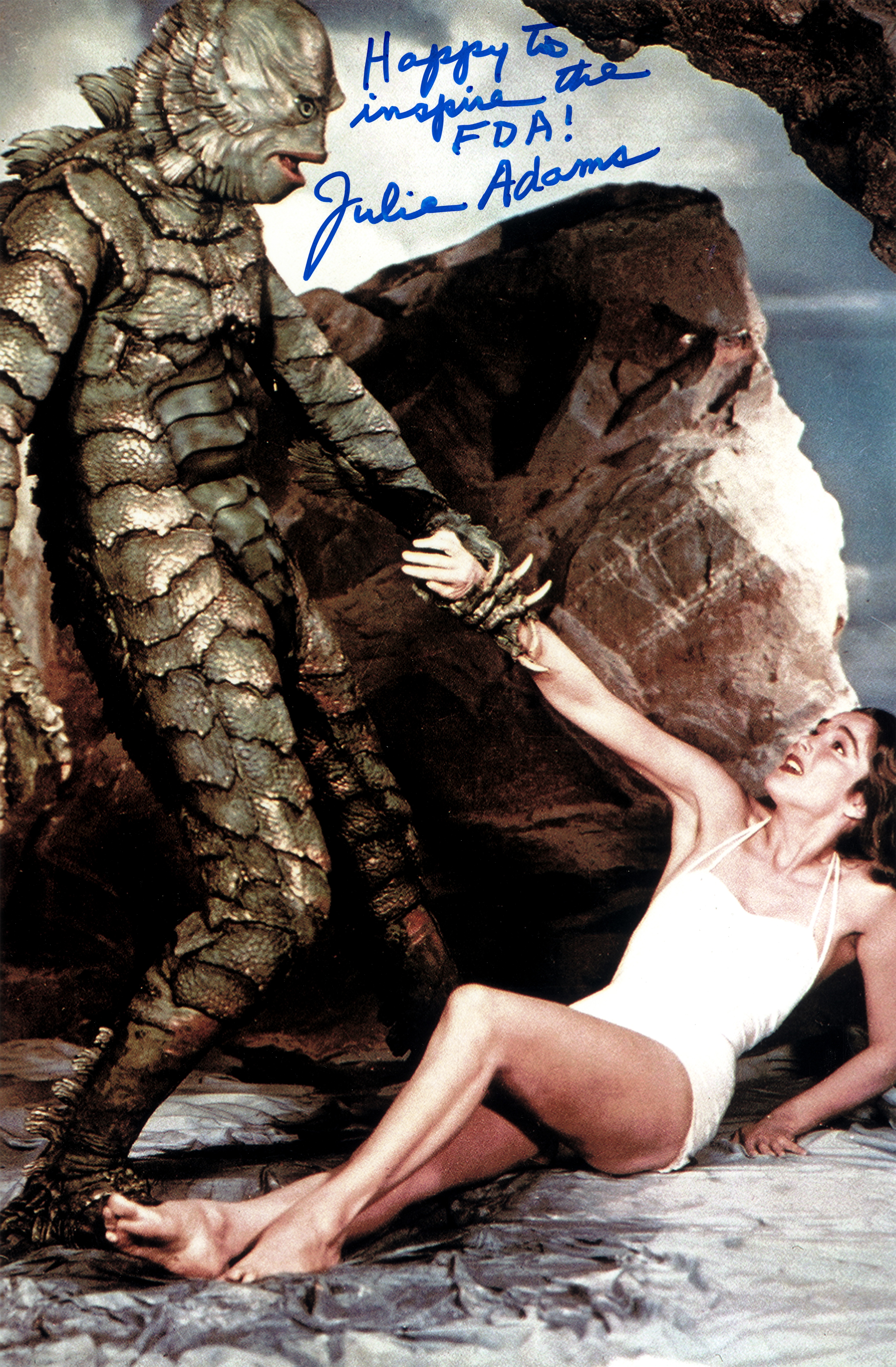 Julie Adams, famously pursued in the 1954 horror classic, “Creature from the Black Lagoon,” portrayed an FDA chemist who helped break up a trucking industry amphetamine ring in “330 Independence S. W.,” a 1962 episode of NBC’s Dick Powell Show. For more information about FDA history visit .